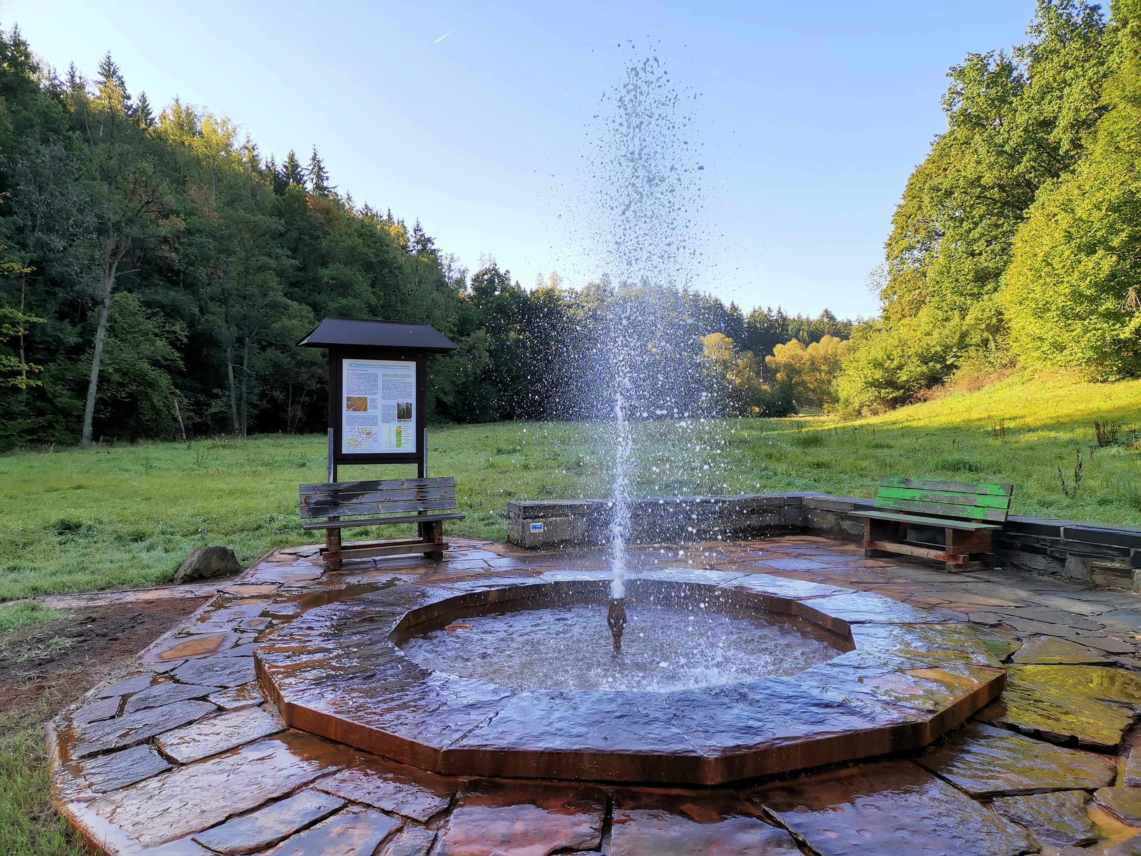 Thermal spring near the former Neumuehle at Geilsdorf in September 2019